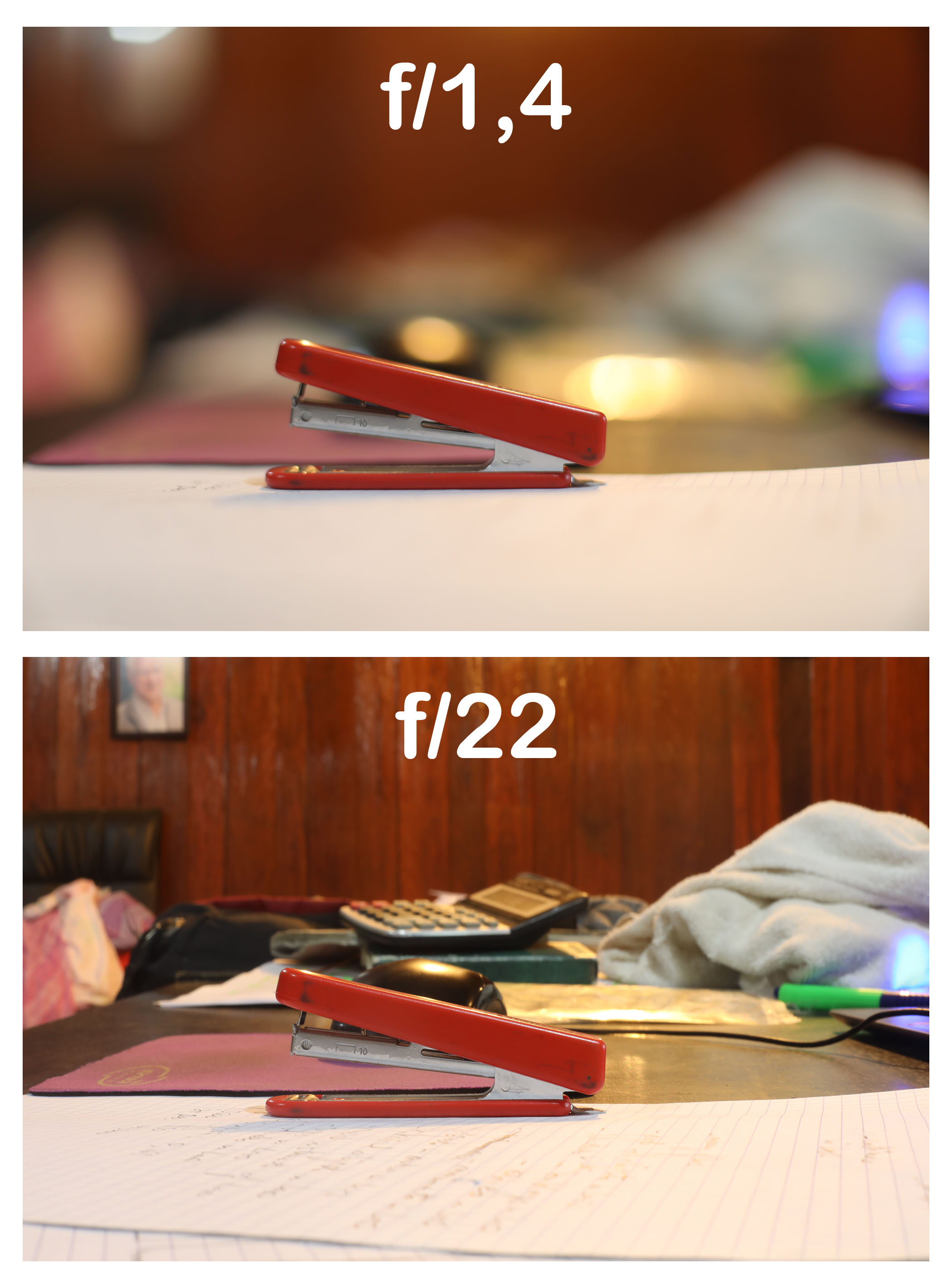 How the bokeh can vary with the aperture on a camera. Canon EF lens 50mm f/1.4 maximum open (1,4) and minimum open (22).